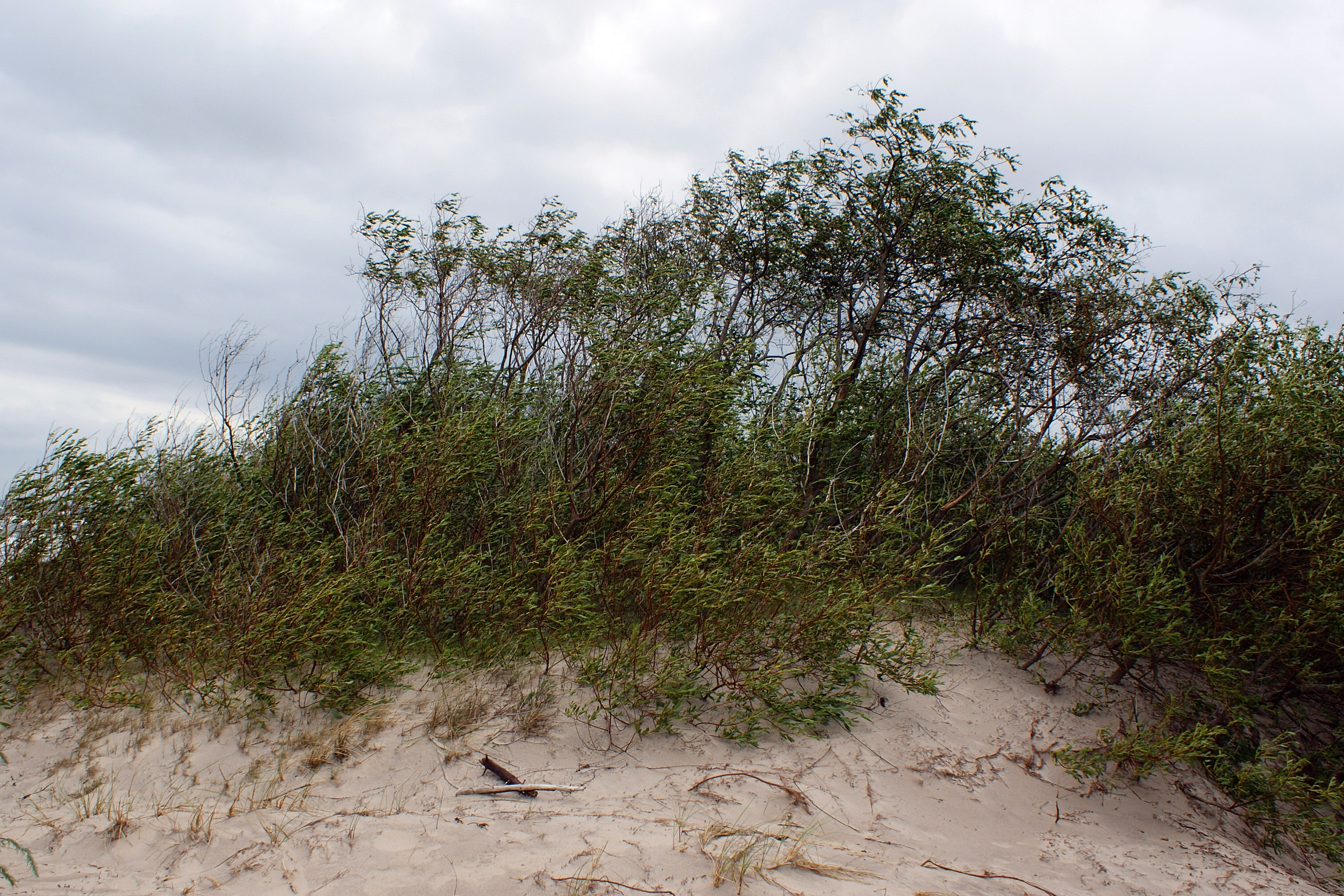 Salix acutifolia on dunes near Mielno on the Baltic Coast in Poland